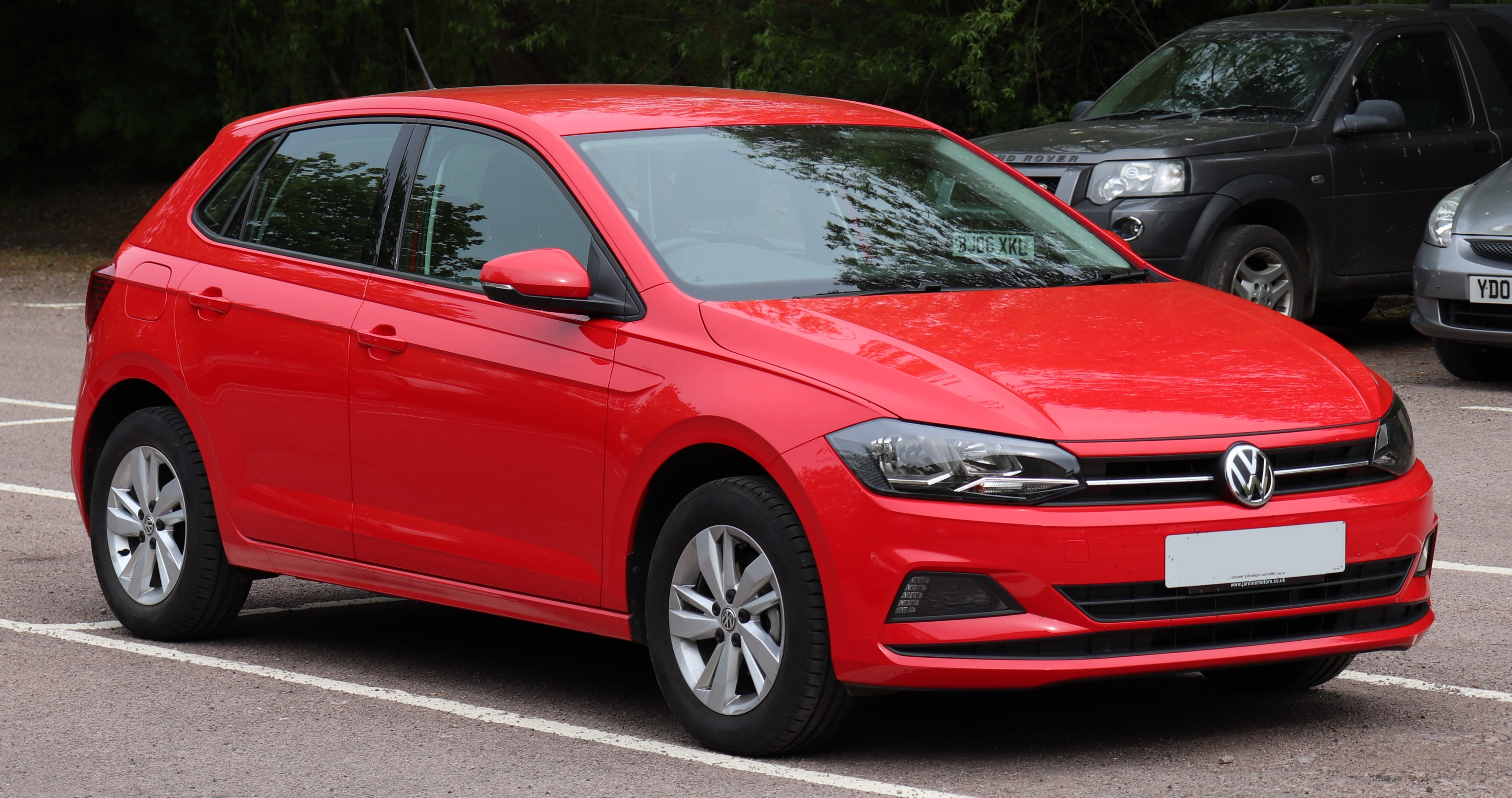 2018 Volkswagen Polo SE 1.0 Front Taken in Leamington Spa